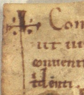 Notarial sign of Malwarnitus, dating back to 1174